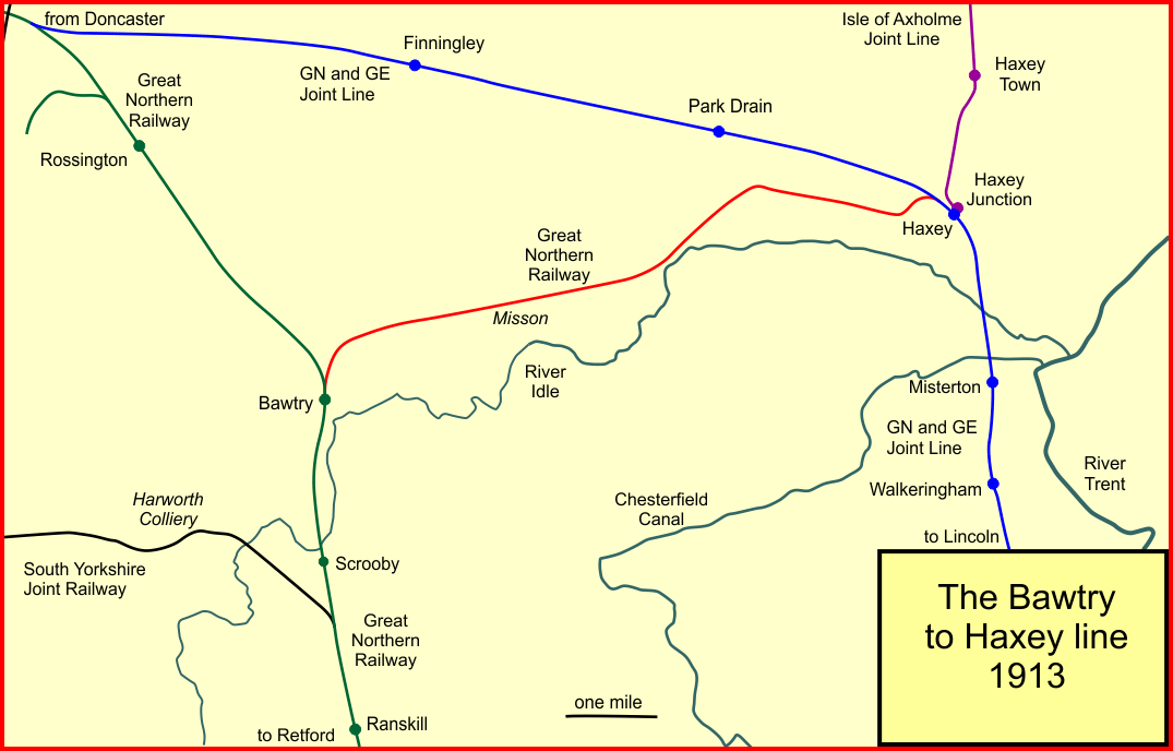 System map of the Bawtry to Haxey railway line in Nottinghamshire and Yorkshire, England in 1913